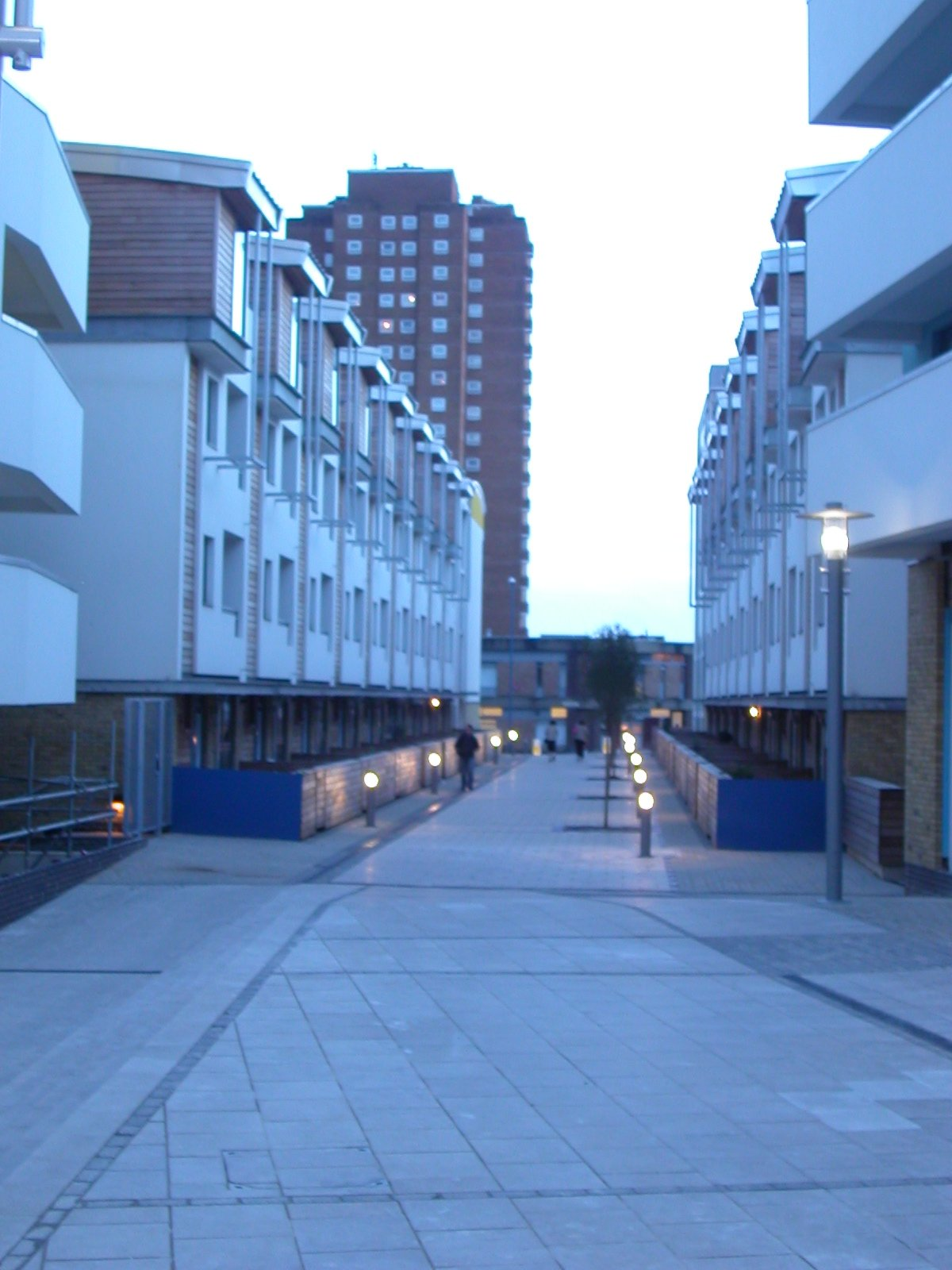 Kingscote Way, New England Quarter, Brighton. Photographed on 1st March 2007.